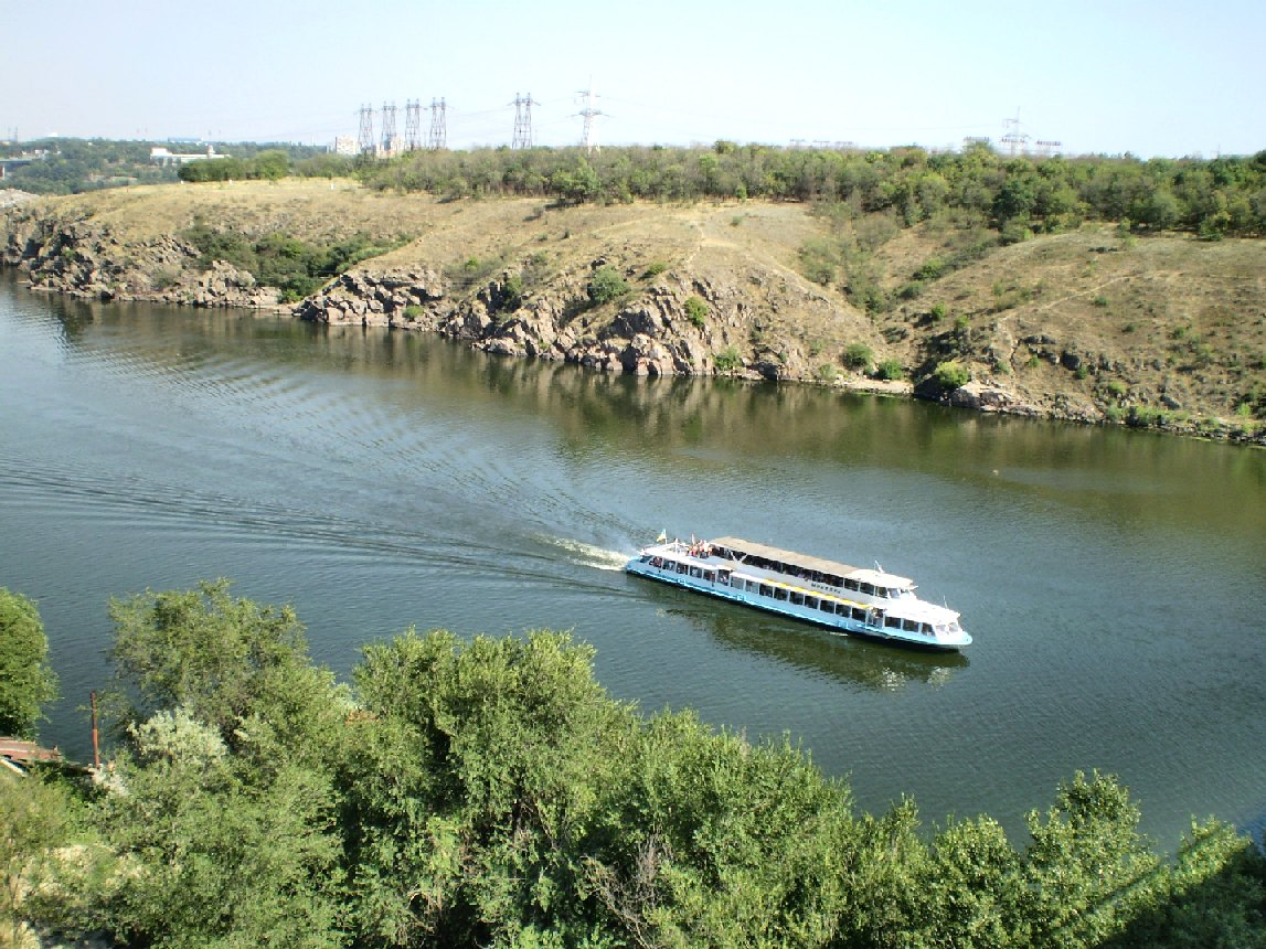 Dnieper River and north-western beaches of Khortytsya (Zaporizhja)